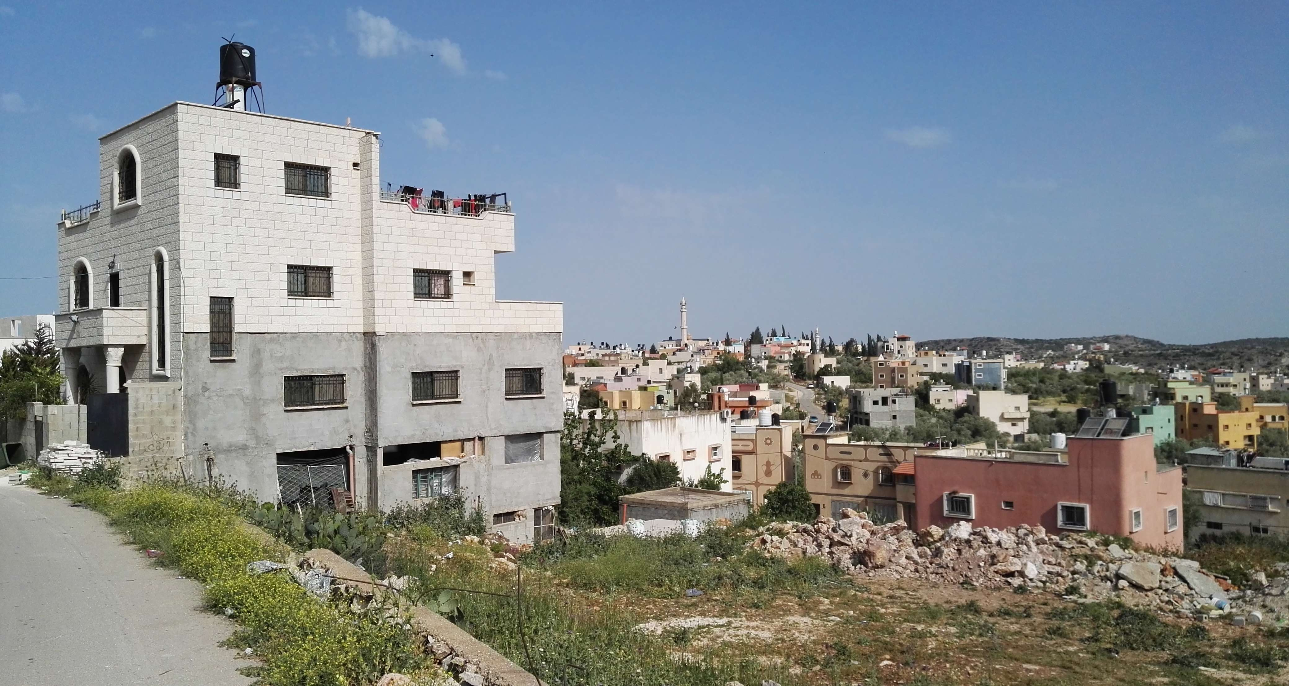 Qarawat Bani Hasan village and its surroundings, West Bank, Palestine.